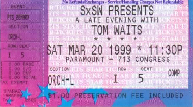 Ticket Stub: Tom Waits @ SXSW 1999